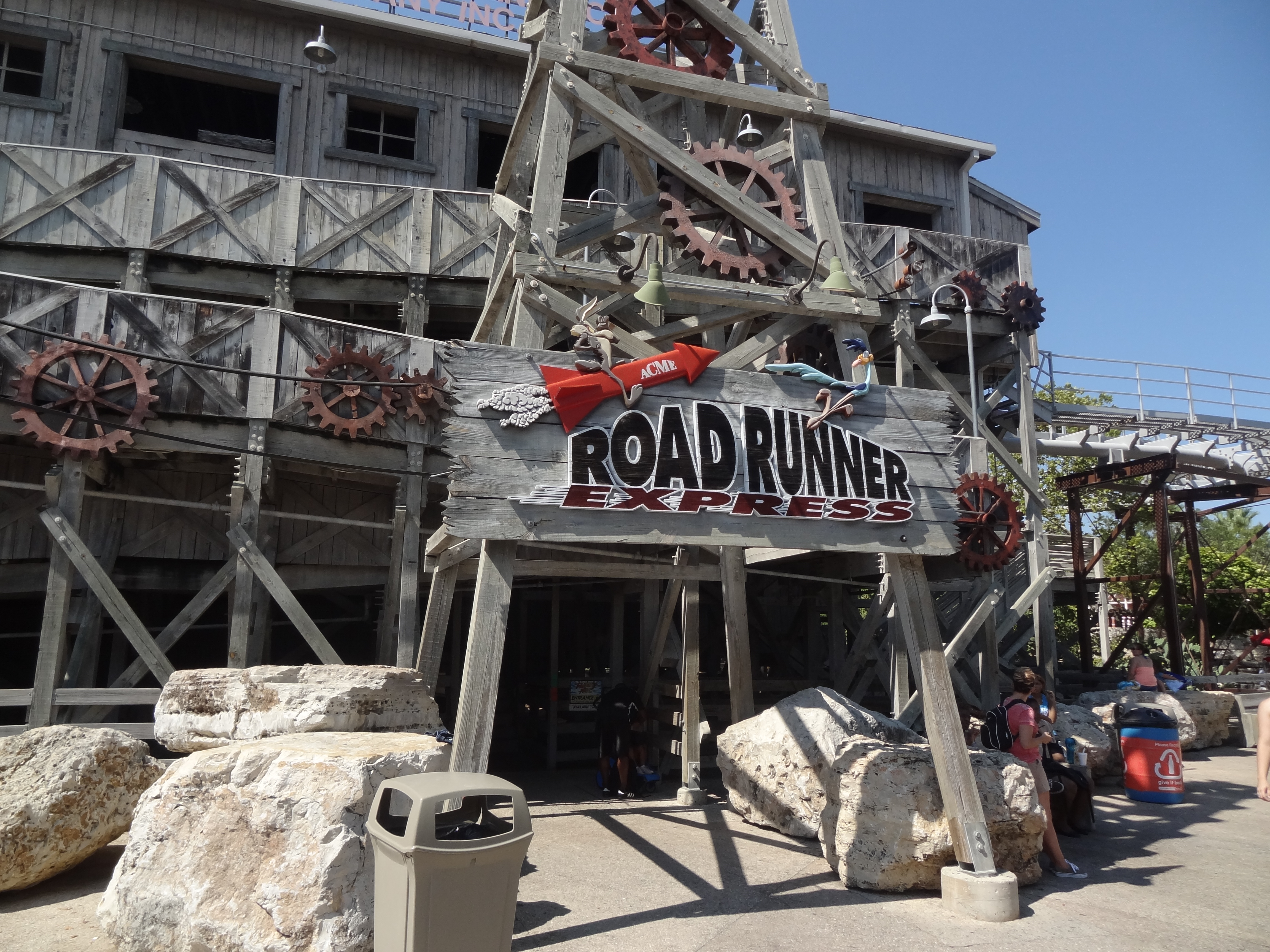 The entrance.